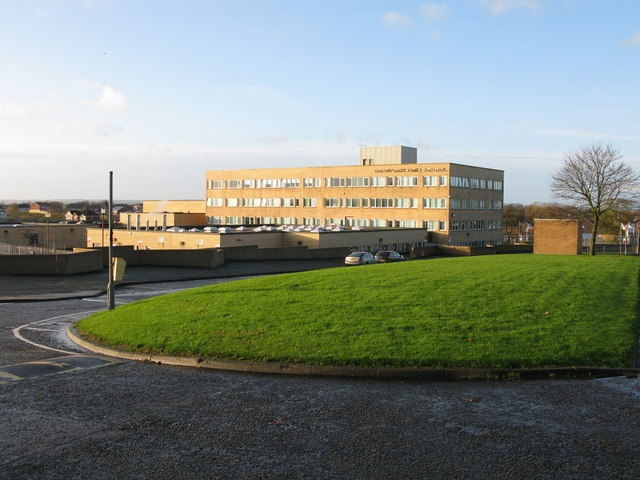 Brannock High School Brannock High's catchment area is the four villages of Carfin, Holytown, New Stevenston and Newarthill.